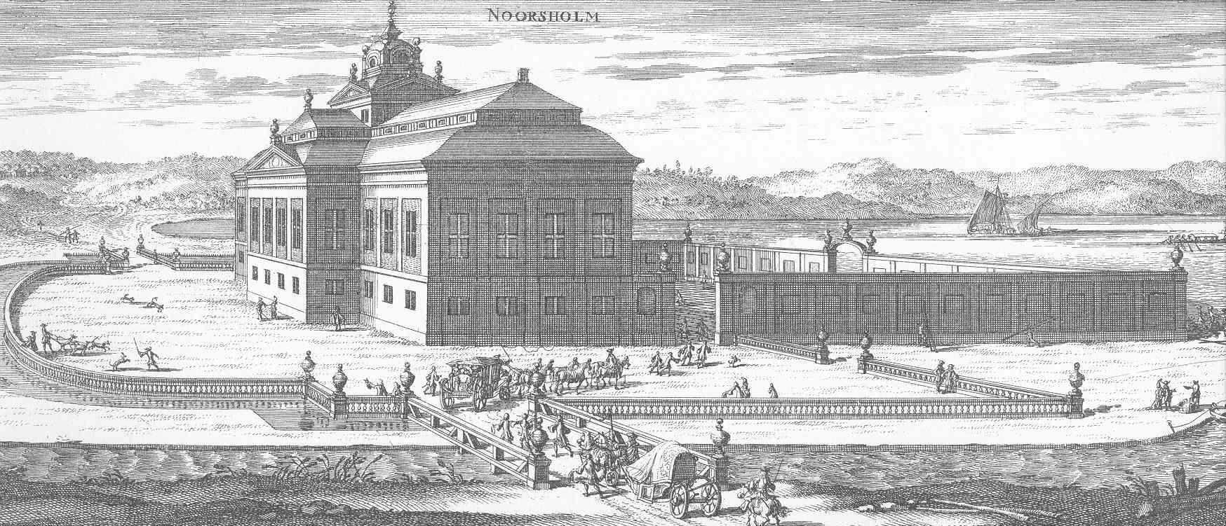 The mansion Norsholm in Norrköping around 1700, a part of the full version.